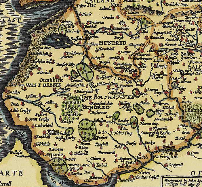 The Hundred of West Derby: John Speed's map of Lancashire is one of the earliest and shows towns and villages but no highways.